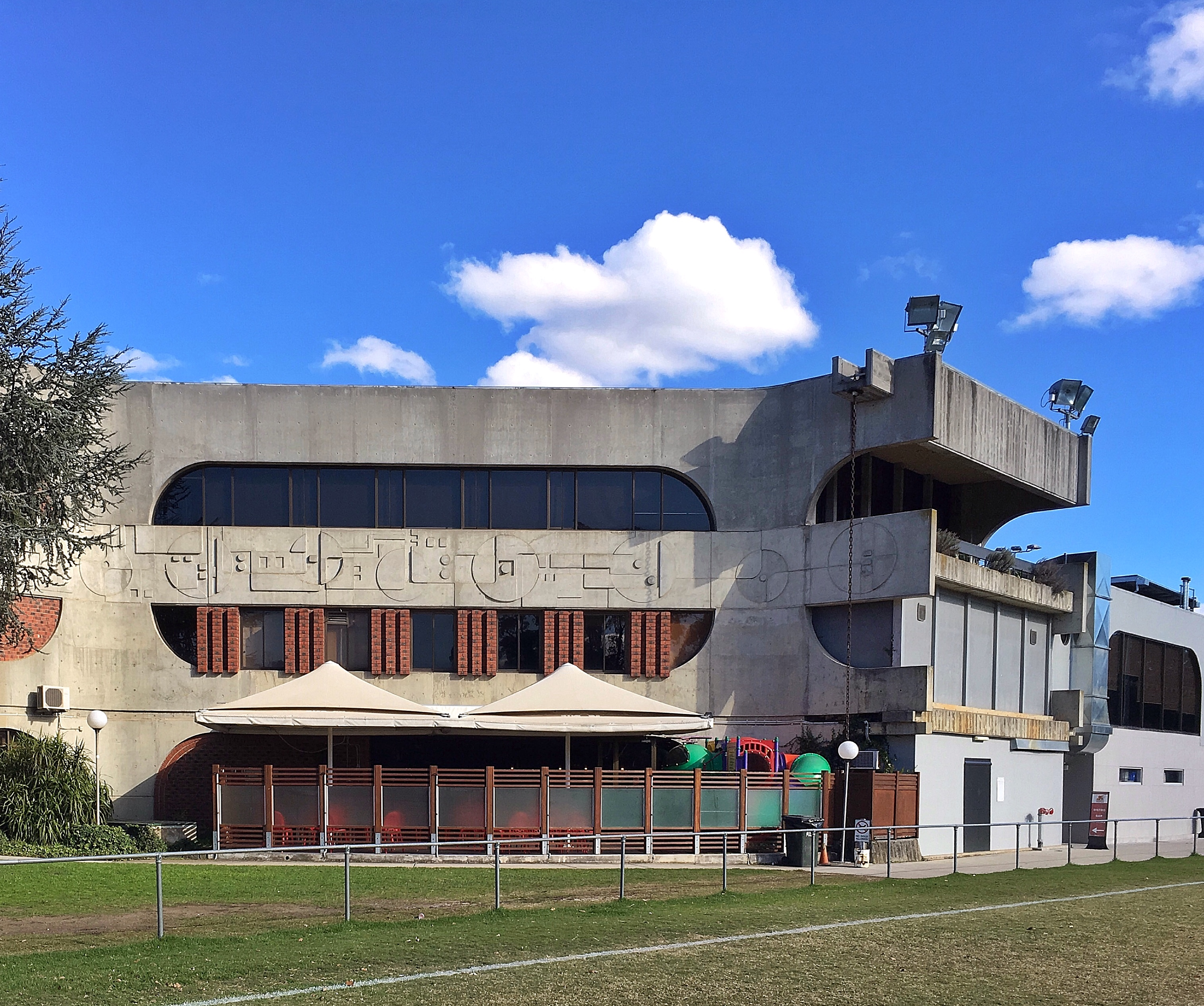 North east view